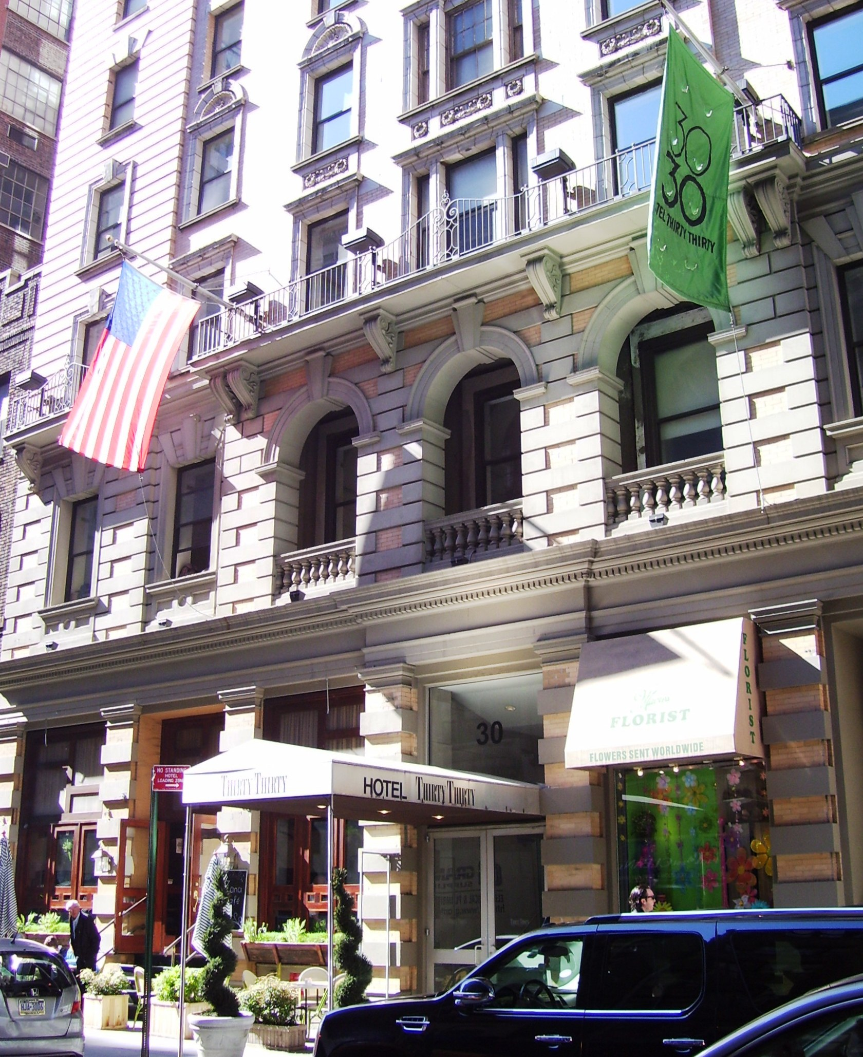 Hotel Thirty Thiry at 30 East 30th Street in the Rose Hill neighborhood of Manhattan, New York City, was formerly the Martha Washington Hotel.